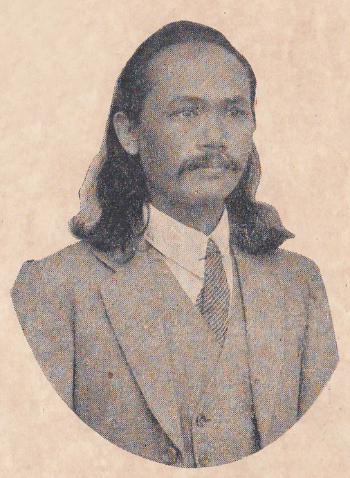 Kediri-based publisher Tan Khoen Swie, who published numerous works of Javanese and Malay literature